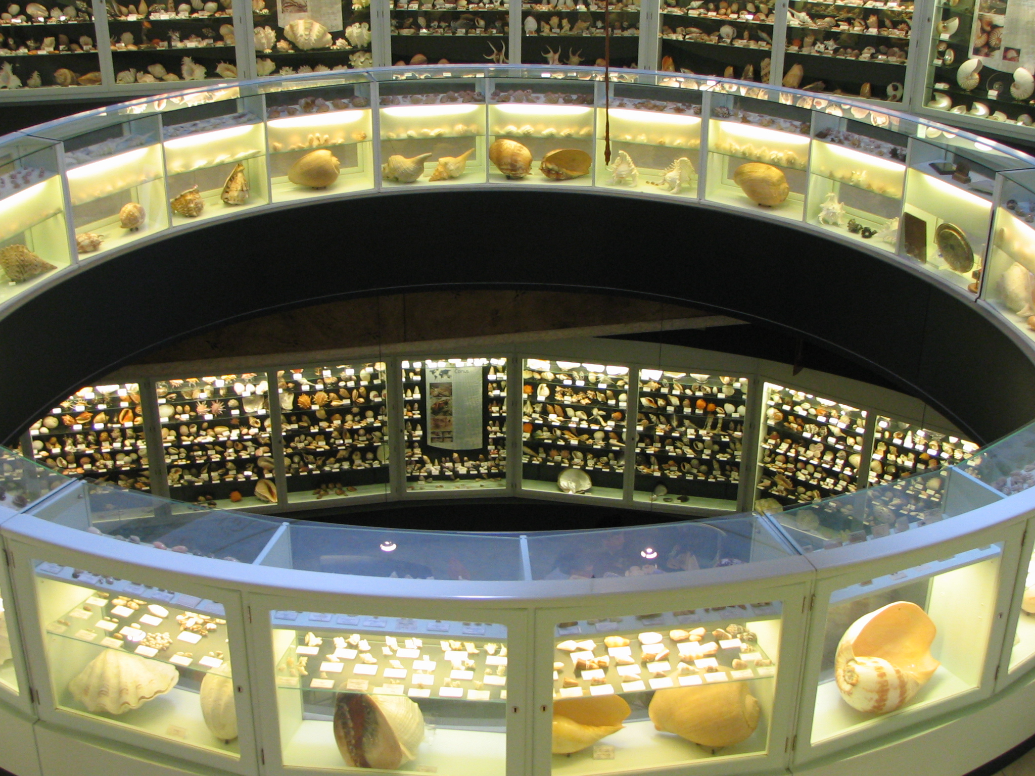 Museo del mar (The Museum of the Sea), Mar del Plata, Argentina. it holds a collection of over 30,000 sea shells, among other specimens. .